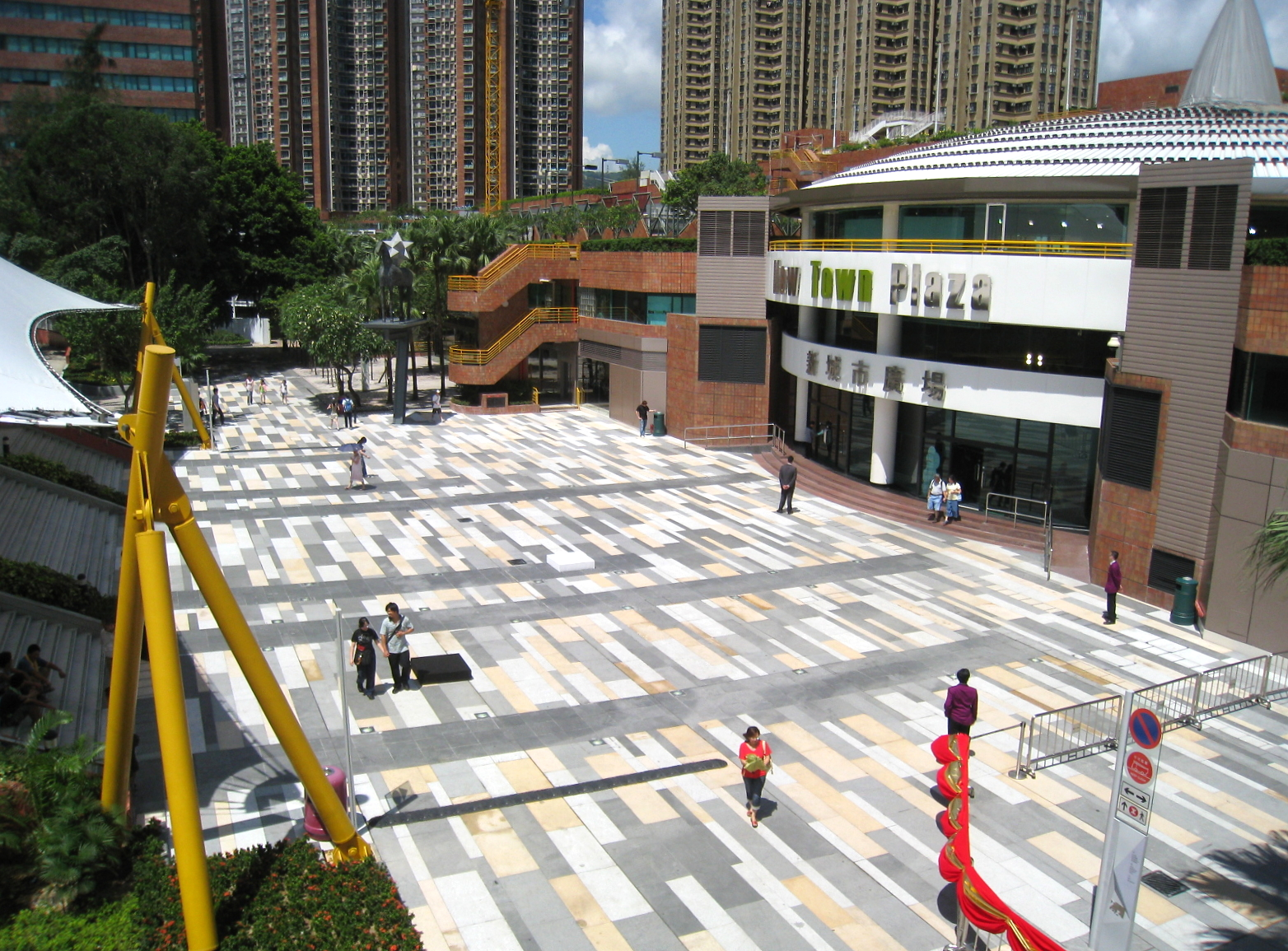 HK City Art Square Area 3 Overview 城市藝坊